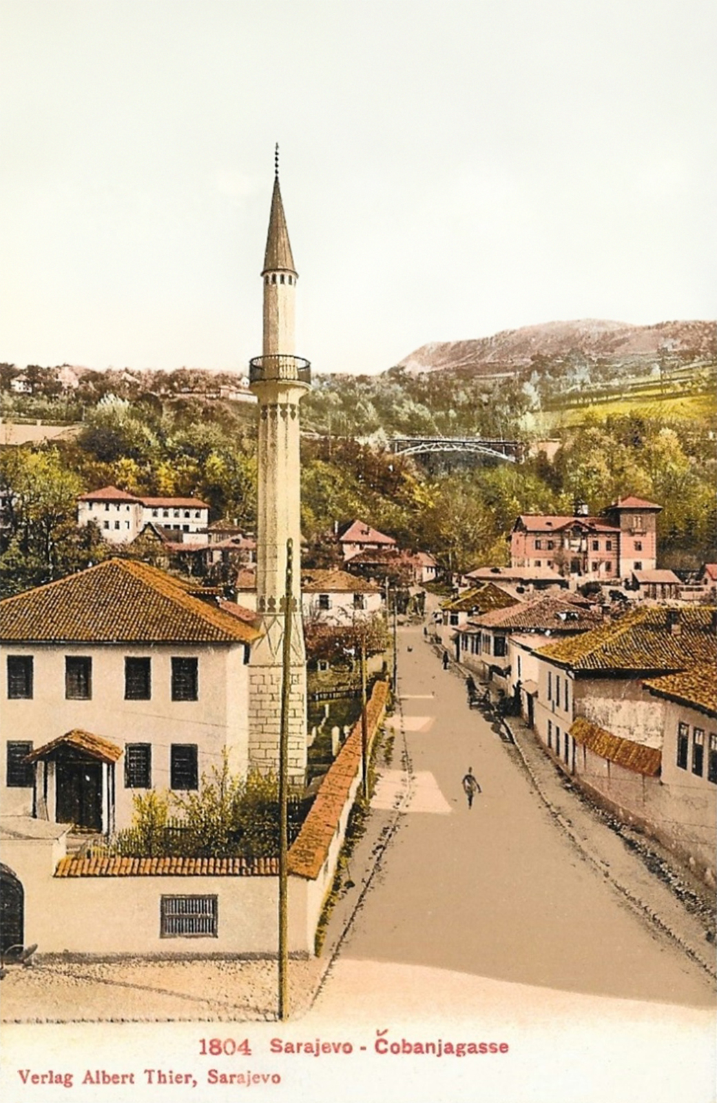 A view towards the Eastern Railway line and bridge Čobanija